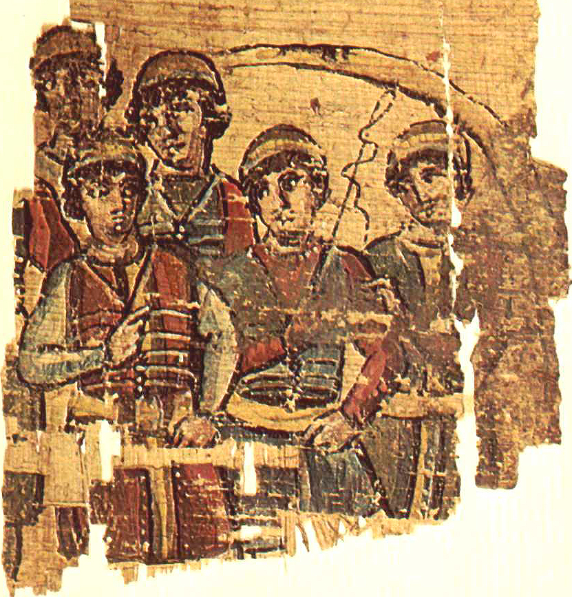 The Charioteer Papyrus (London, Egypt Exploration Society, s.n)